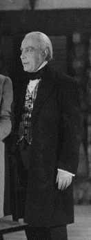 Francisco Lopez Silva